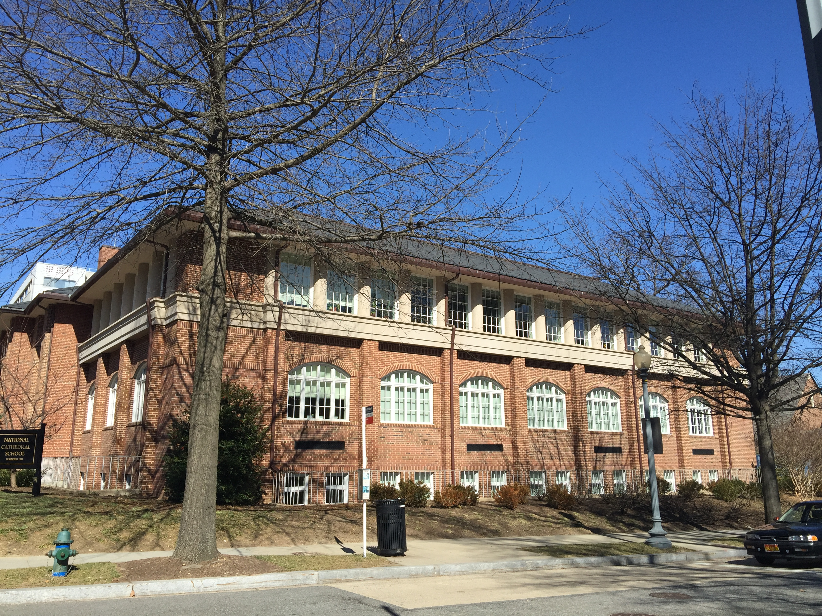 National Cathedral School, Washington DC: classroom building on Wisconsin Avenue, Middle and Lower School